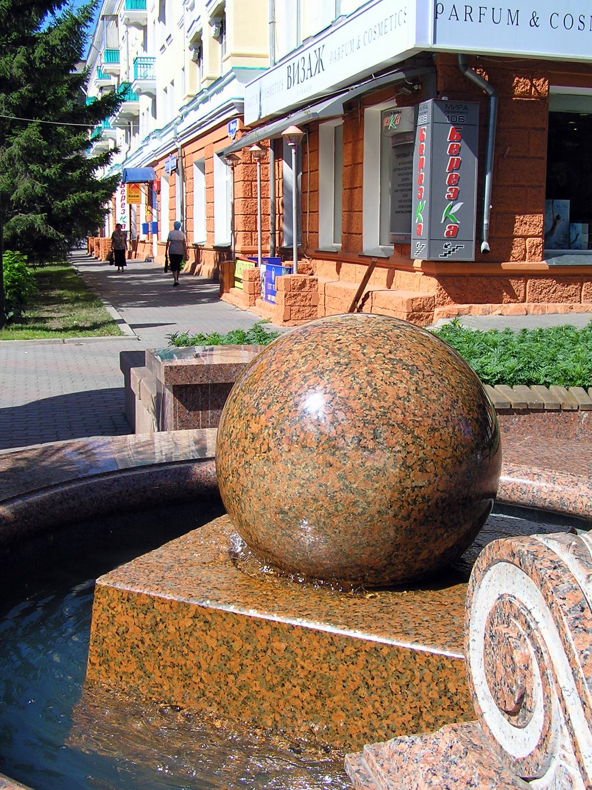 A Floating stone spheres in Krasnoyarsk, Russia.